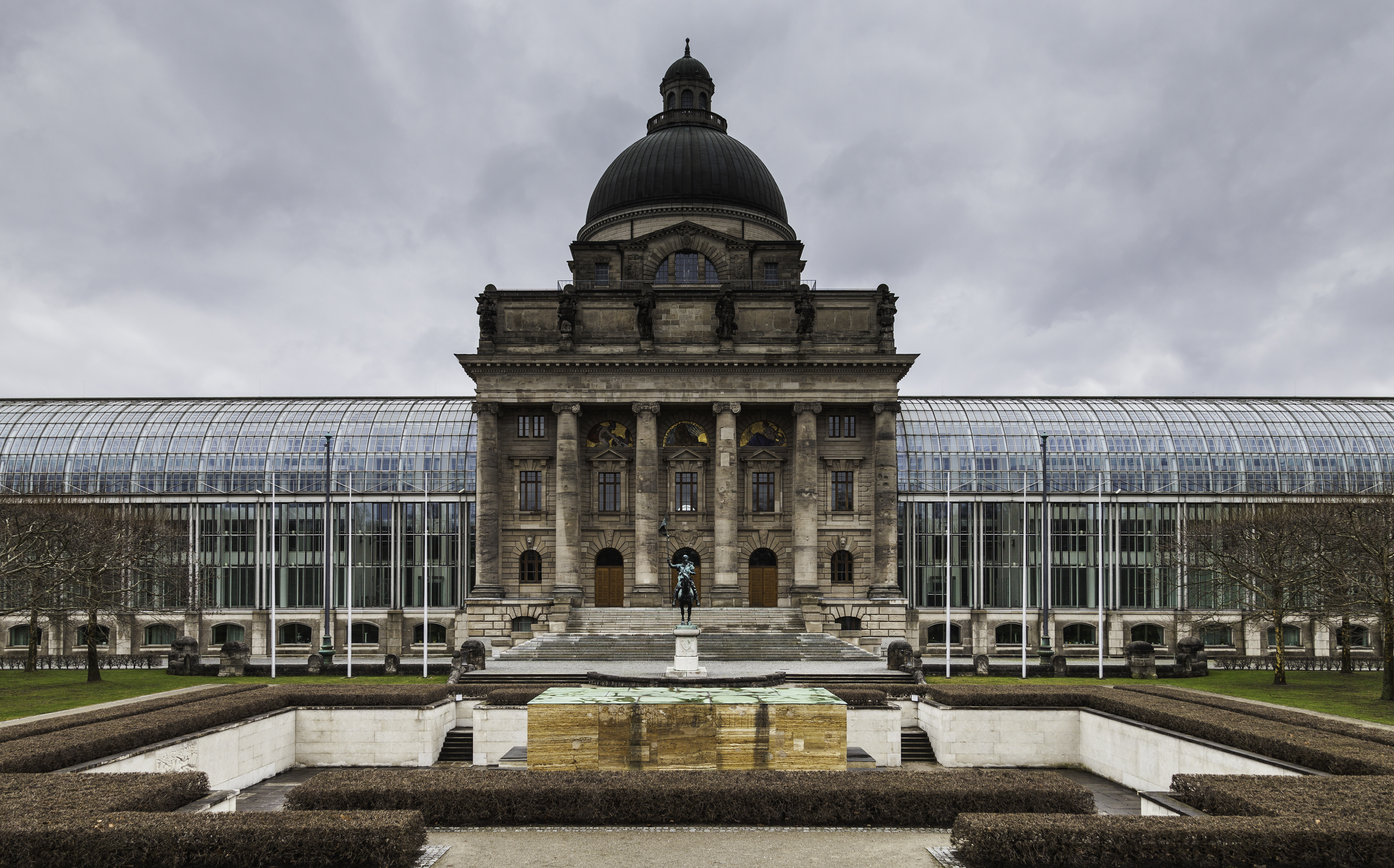 Frontal view of the Bayerische Staatskanzlei (Bavarian State Chancellery), Hofgarten, Munich, Germany. The institution is serving as the executive office of the Minister-President as head of government. The State Chancellery is represented by Bavarian missions in the German capital Berlin and to the European Union in Brussels.